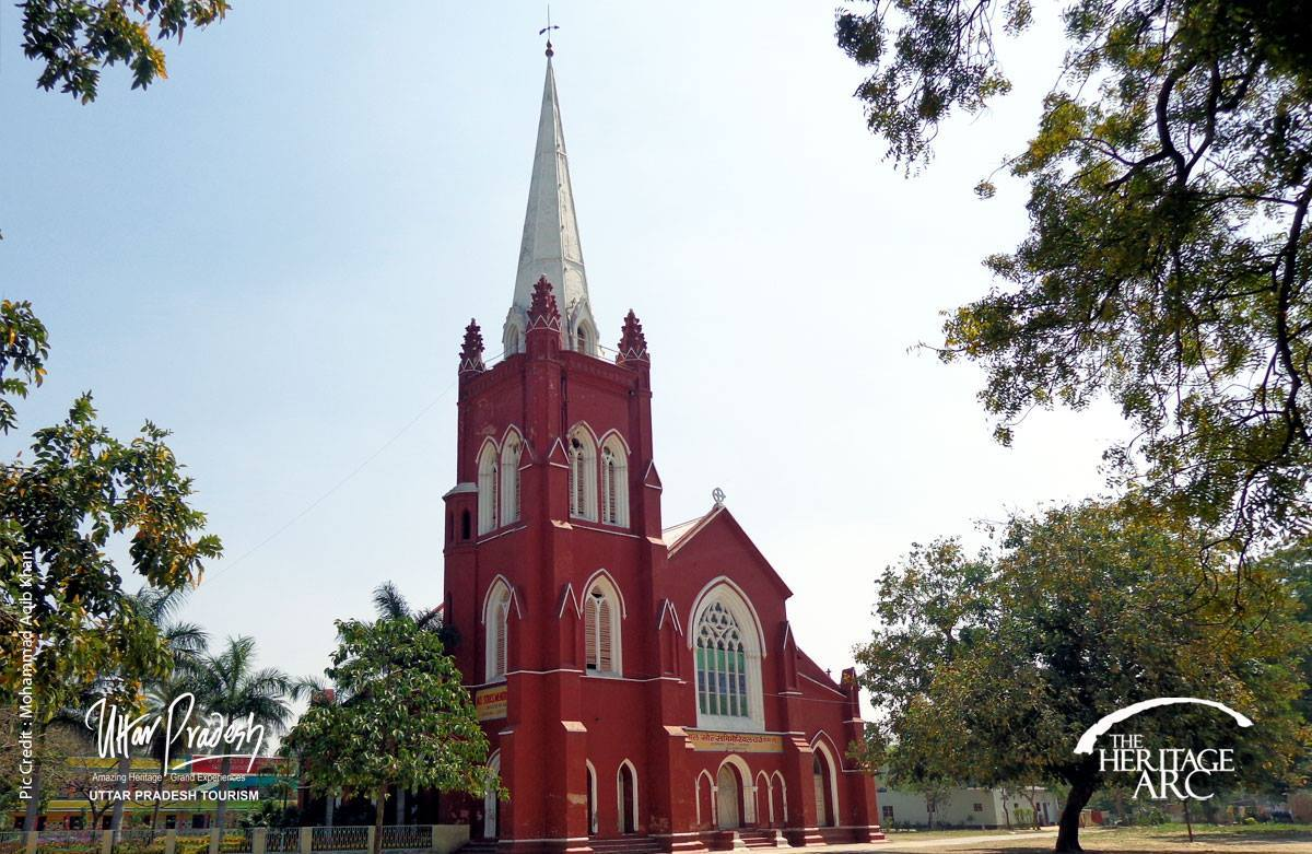 Church